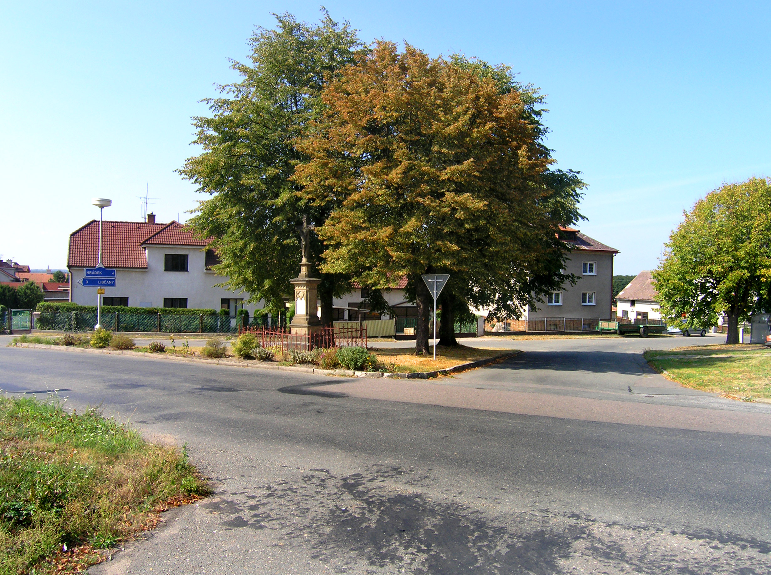 North part of common in Těchlovice, Czech Republic